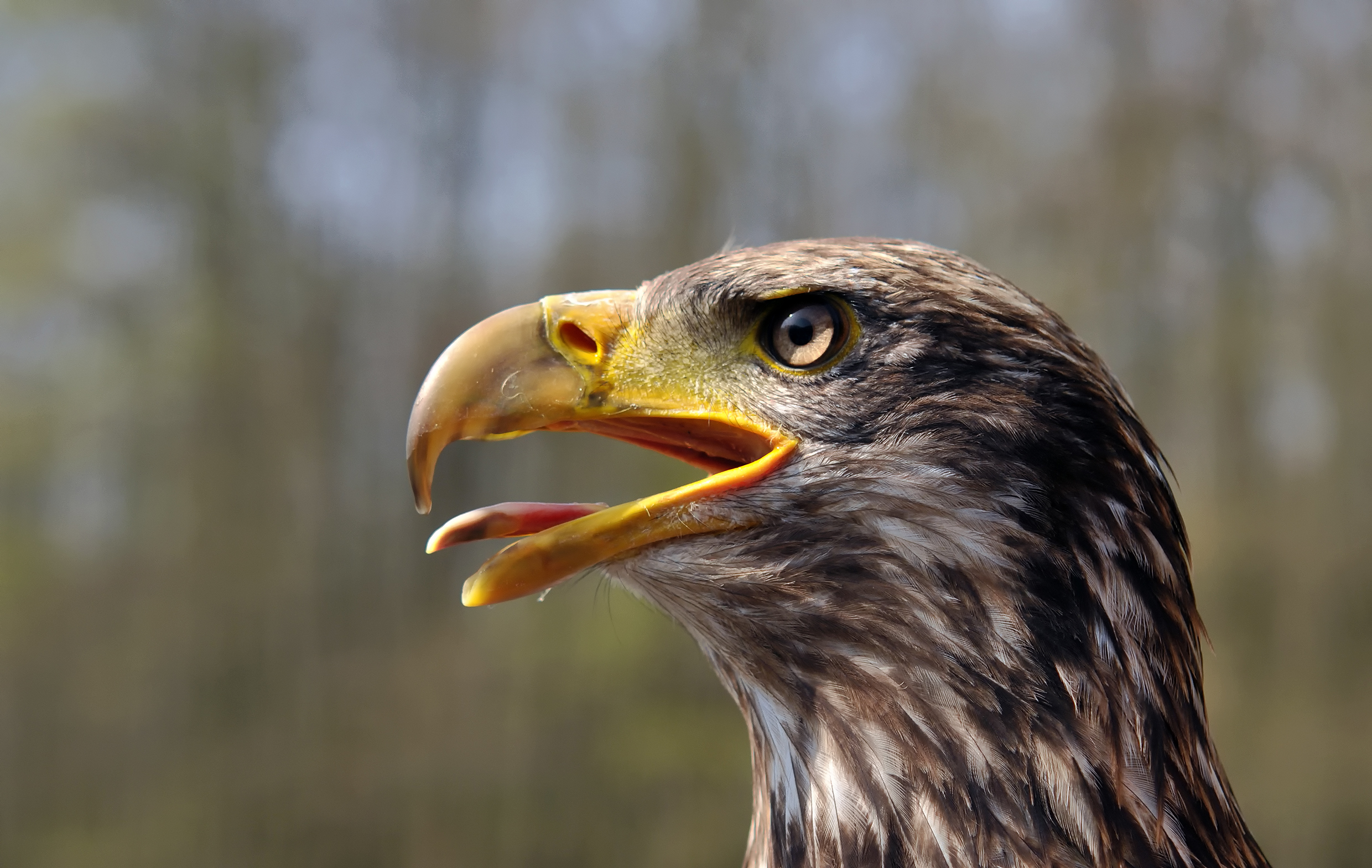 Head of the juvenile Bald Eagle from the Falkenhof in the Wisentgehege Springe game park near Springe, Hanover, Germany